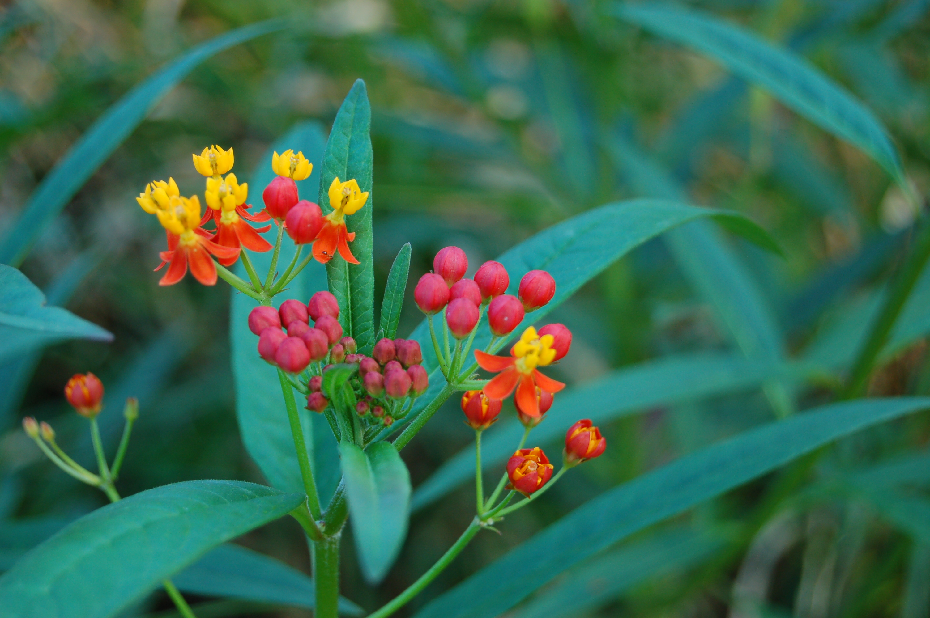 Photograph of a flower cluster of the Mexican Butterfly Weed (Asclepias curassavica). Photo taken at the Tyler Arboretum where it was identified.